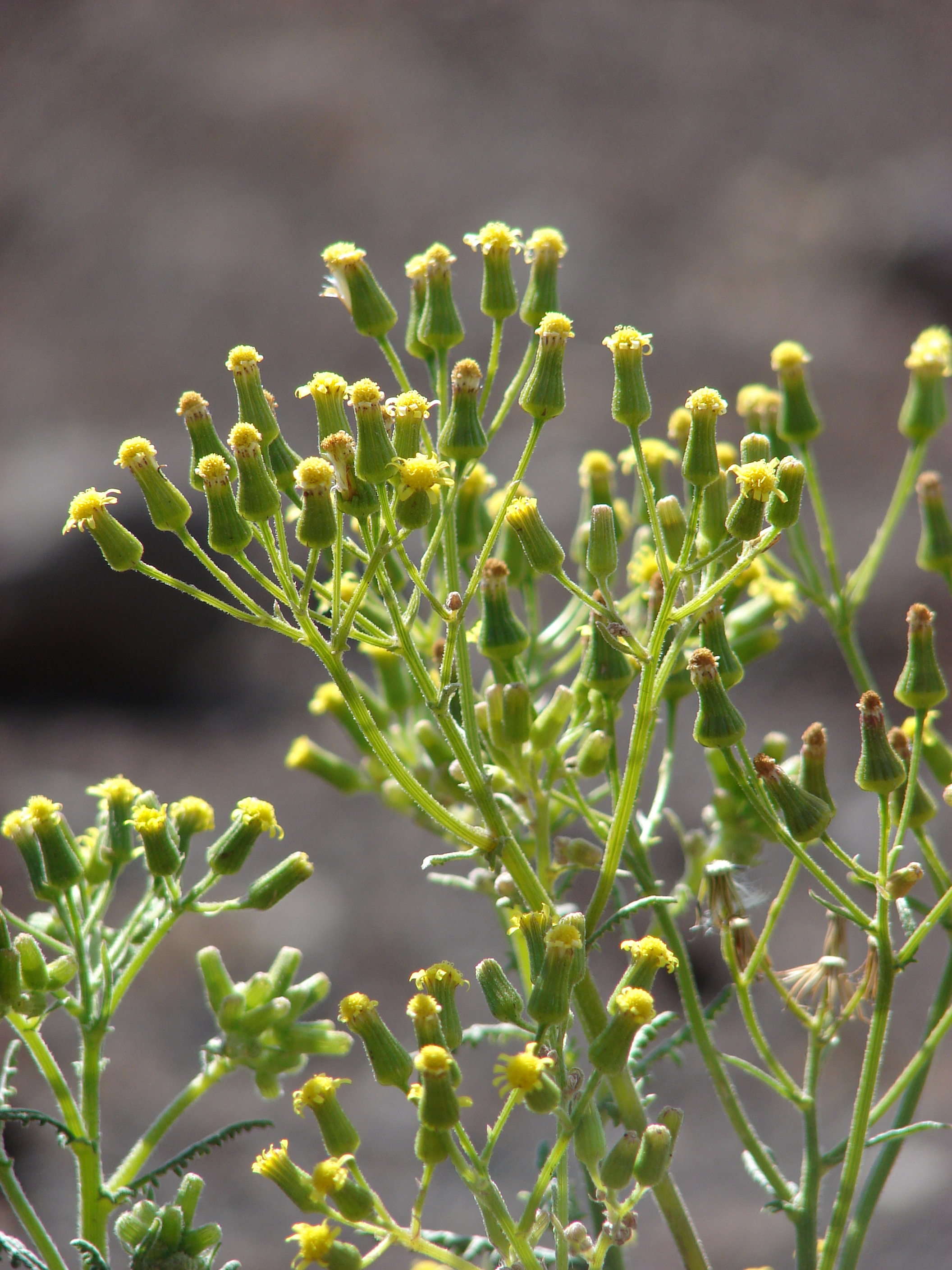 Senecio sylvaticus (flowers). Location: Maui, HVC Haleakala National Park